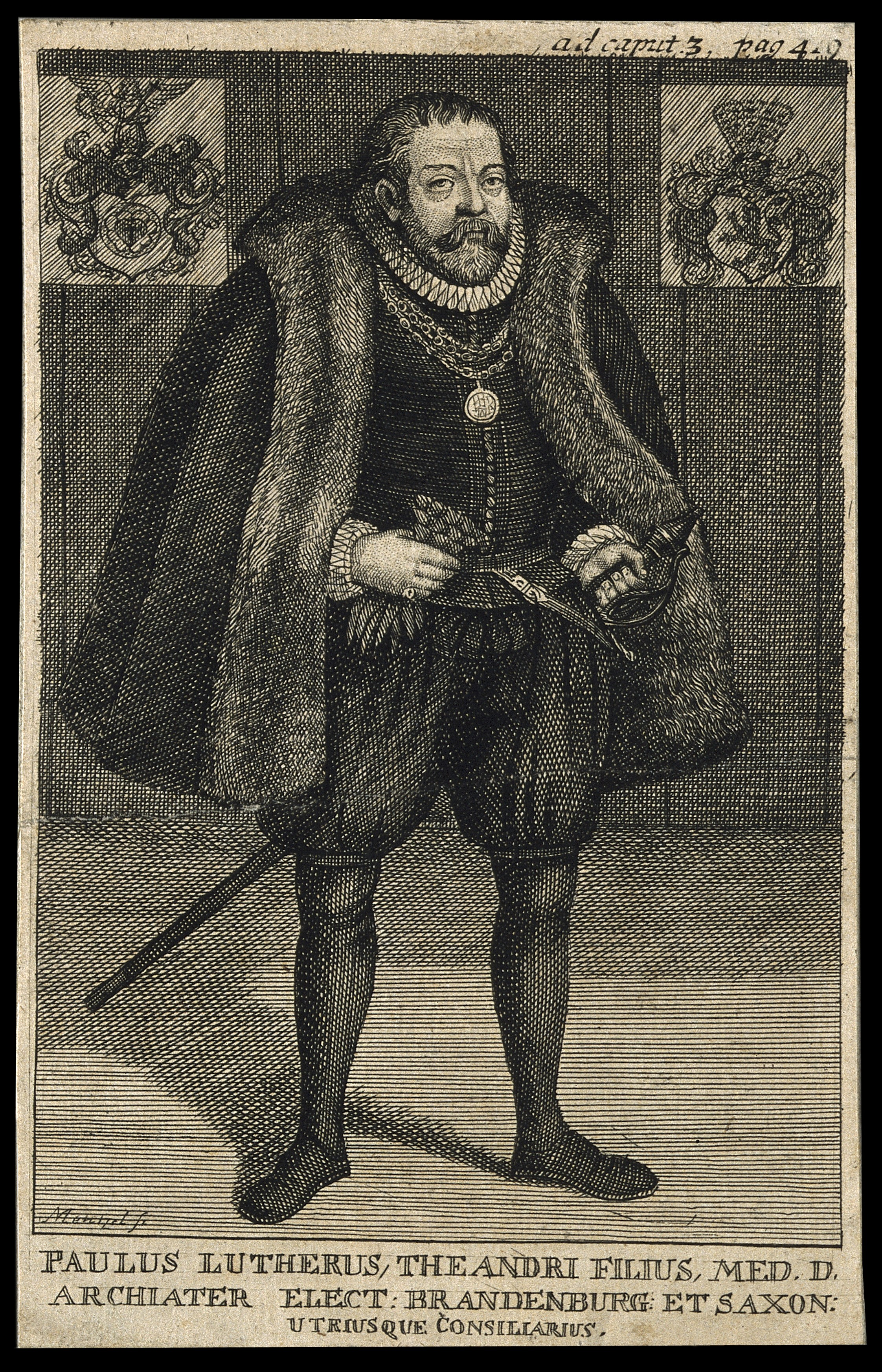 Paul Luther. Line engraving by Mentzel. Iconographic Collections Keywords: Paul Luther; engravings; Physician; portrait prints; Portrait; Alchemists